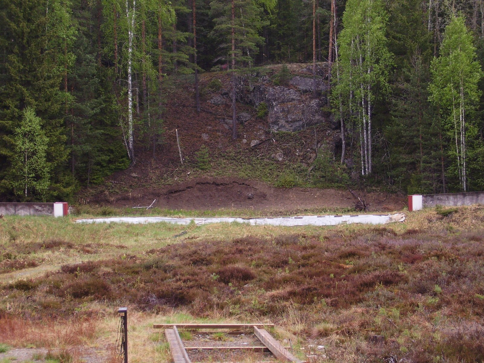 Shooting range in Lehmussuo. Deer.